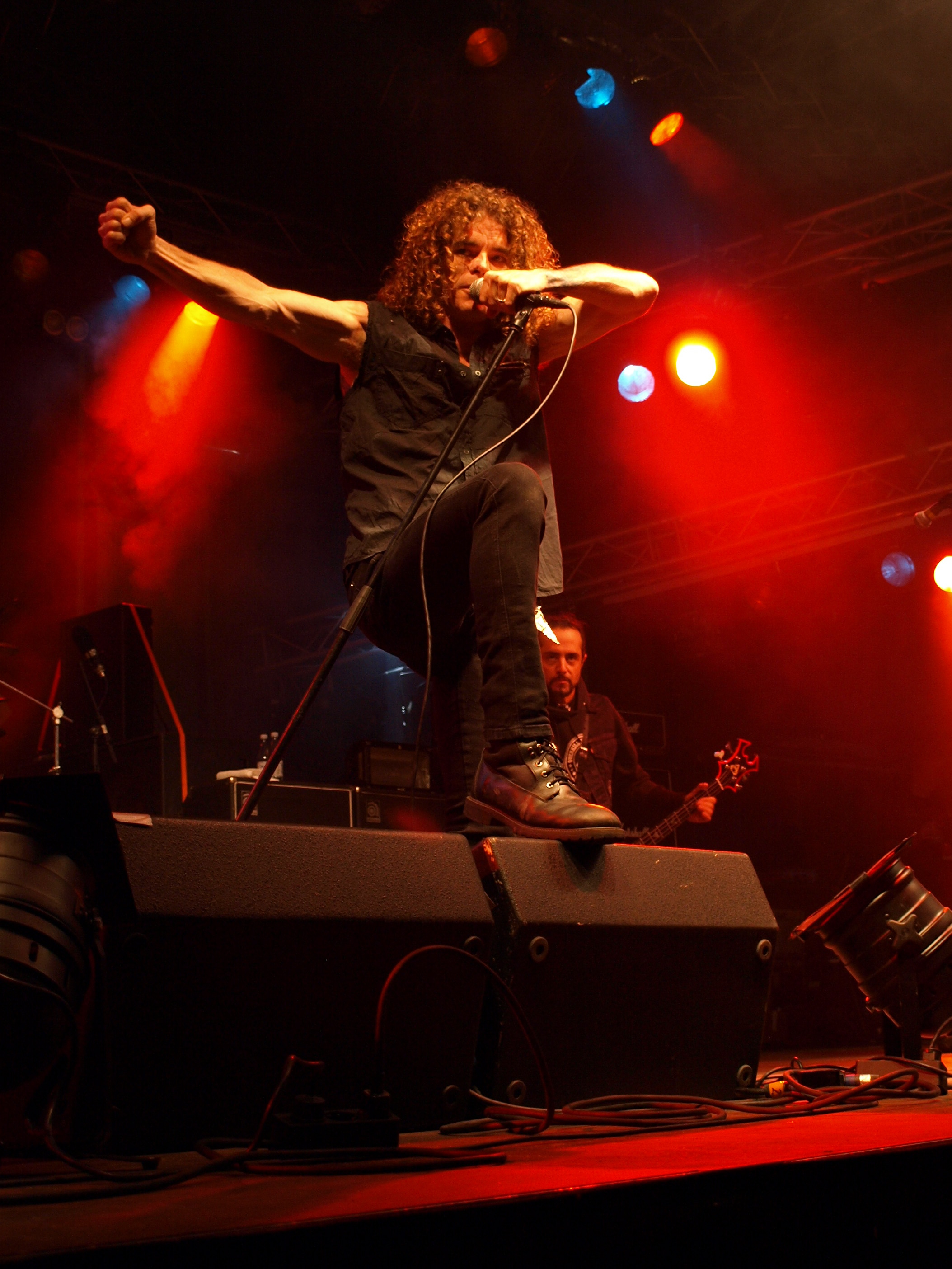 American thrash metal band Overkill live at Jalometalli 2008 in Oulu.